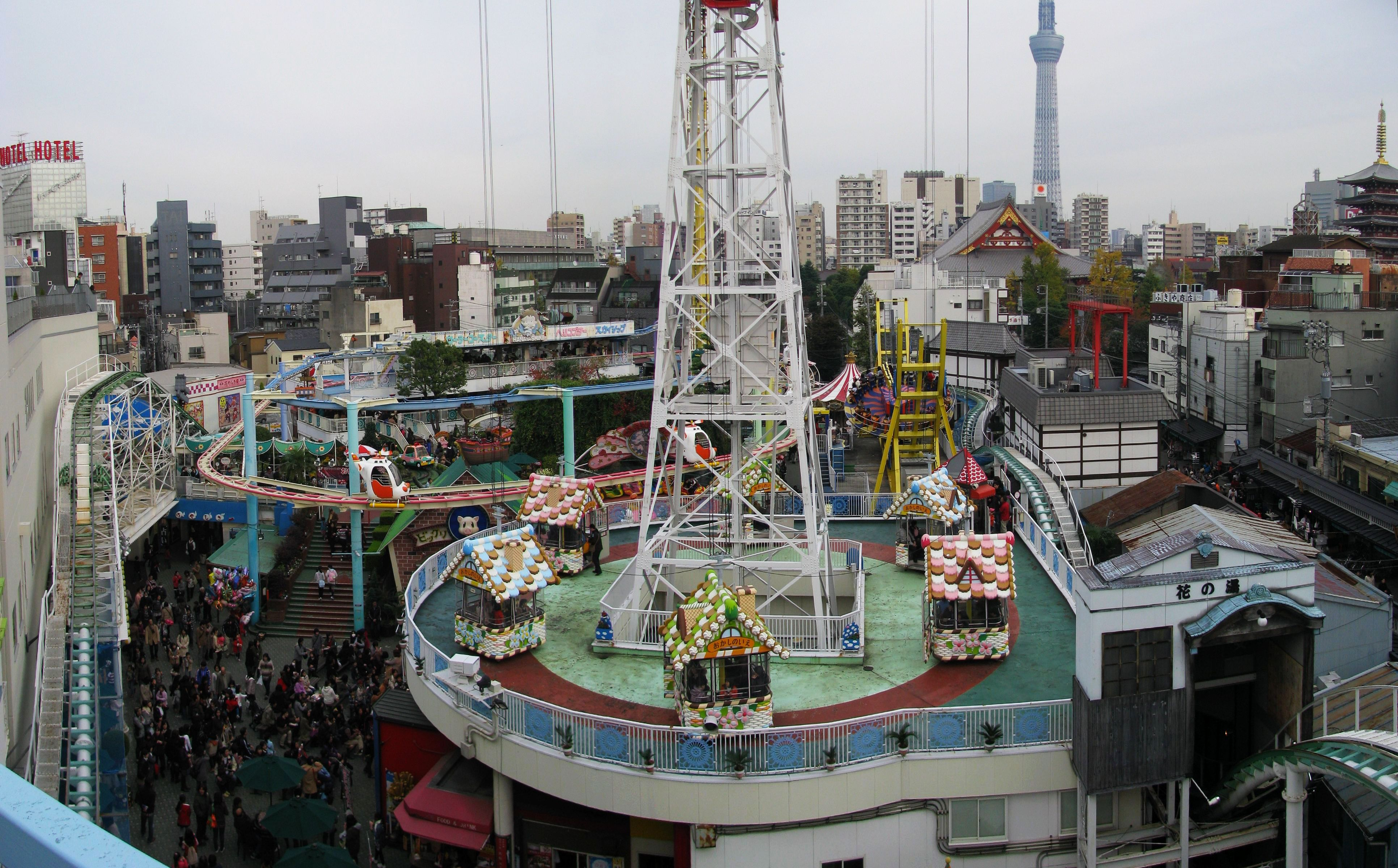 The Asakusa Hanayashiki. This place is Asakusa in Taitō, Tokyo, Japan.